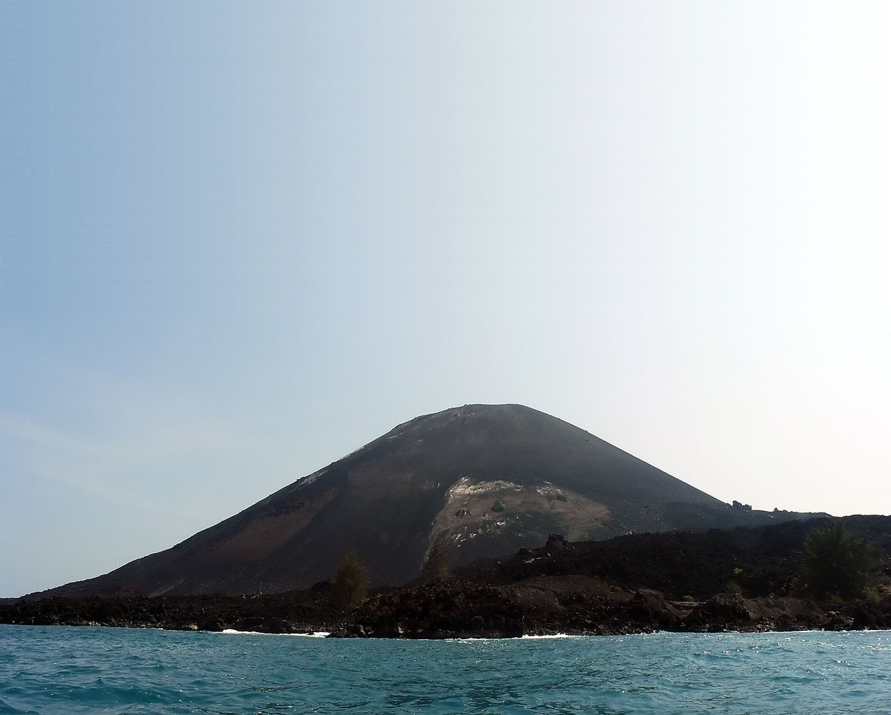 Taken from a boat near the volcano with a Panasonic DMC-FZ8 (ISO100, 1/400 sec) and a 0.7 wide angle converter lens